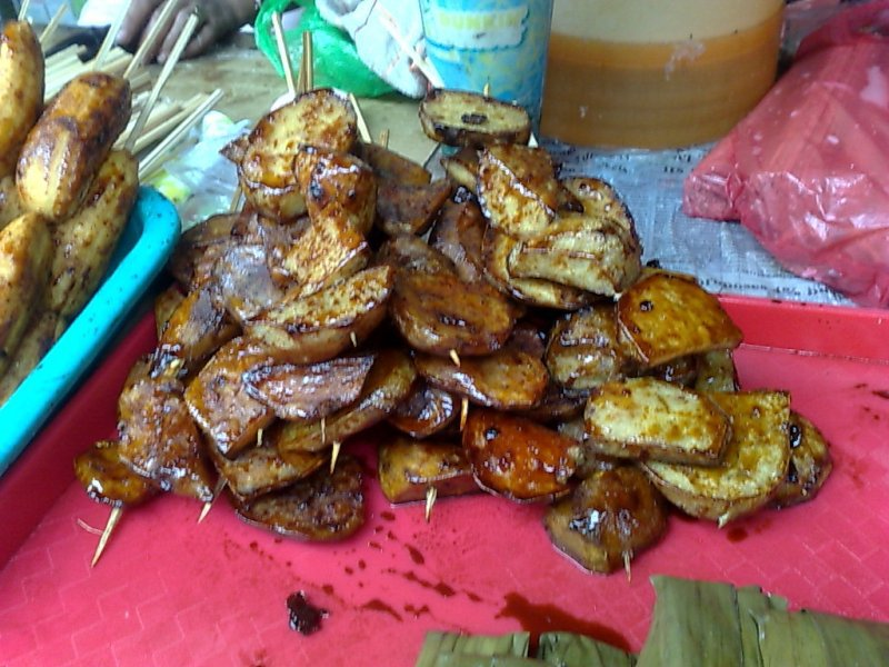 This image is uploaded for an article in the Wikipedia known as camote cue.